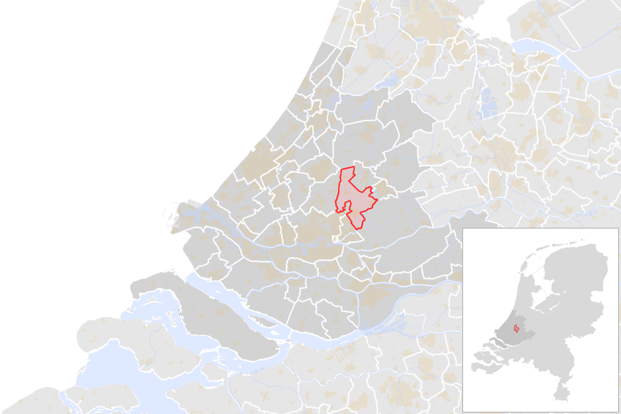 Locator map showing municipality boundary of one of the 390 Dutch municipalities (as of 2016)